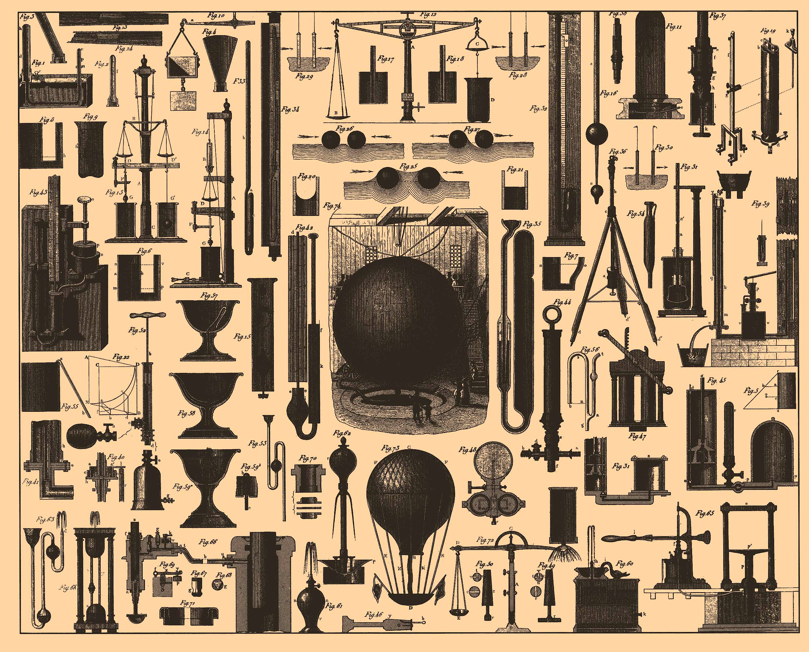 Illustration from Brockhaus and Efron Encyclopedic Dictionary (1890—1907)